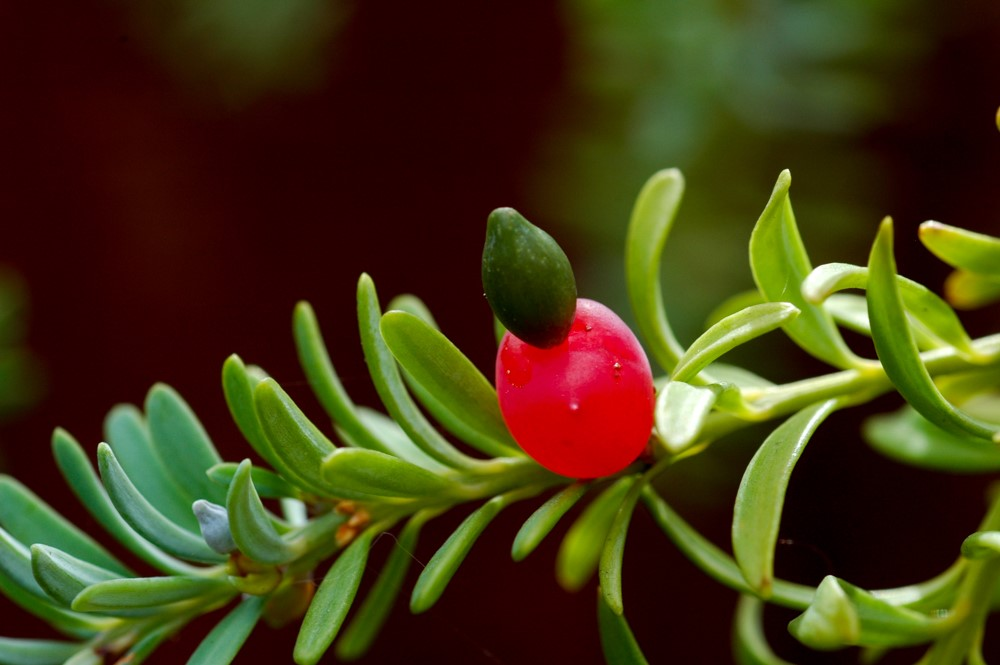 Podocarpus lawrencei, Mt. Field